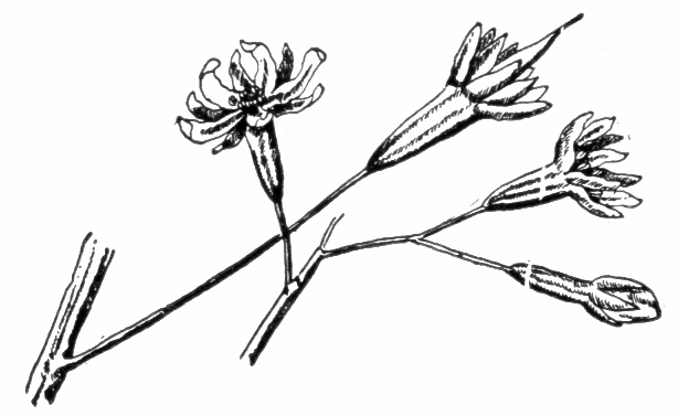 Pistillate and staminate flowers of Kentucky coffee-tree